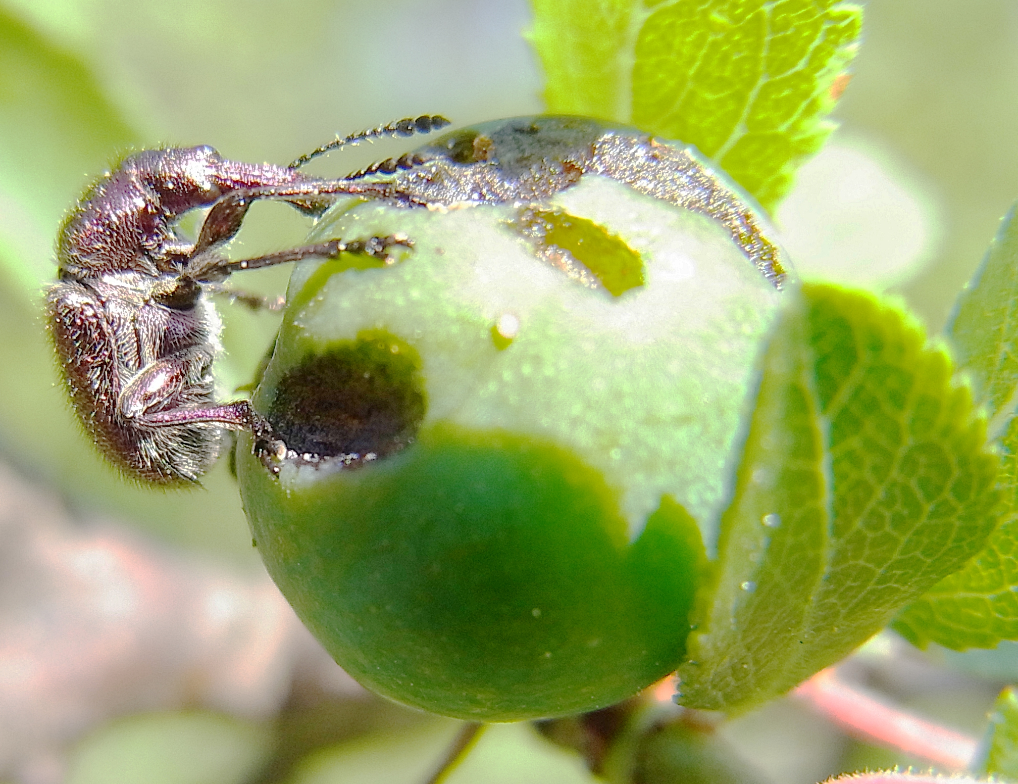 Rhynchites auratus from north-east Spain near Bellcaire d'Empordá on feeding on sloe at 2011-04-27